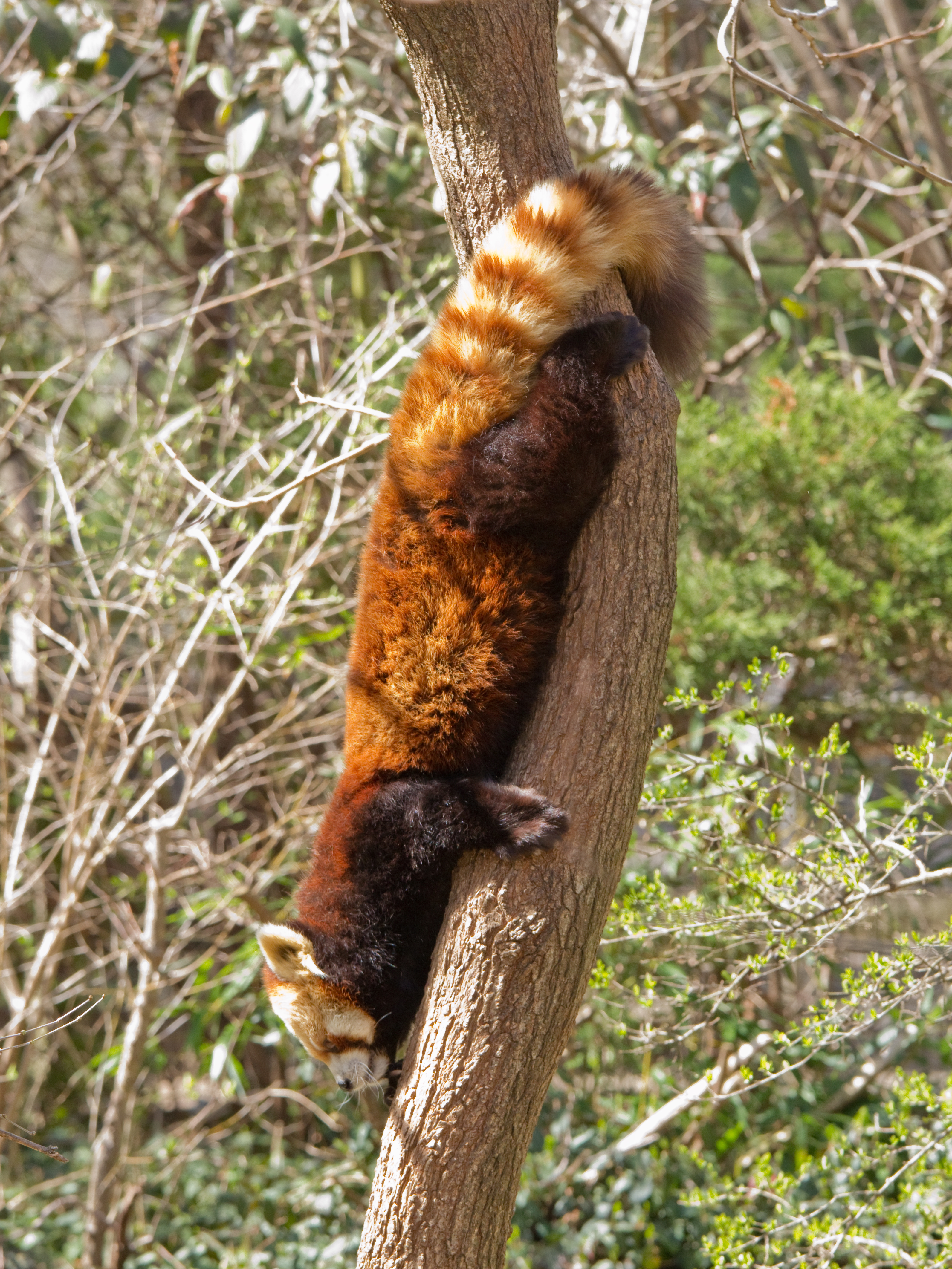 Rotation of back paw allows red panda to descend head first down tree. Taken at the Cincinnati Zoo Photo by Greg Hume.